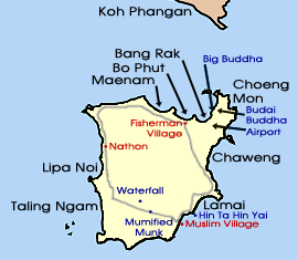 Map over Koh Samui, with known tourist beaches, Ringroad and few attracktions. (Based on map Tambon 8404.png by Ahoerstemeier)